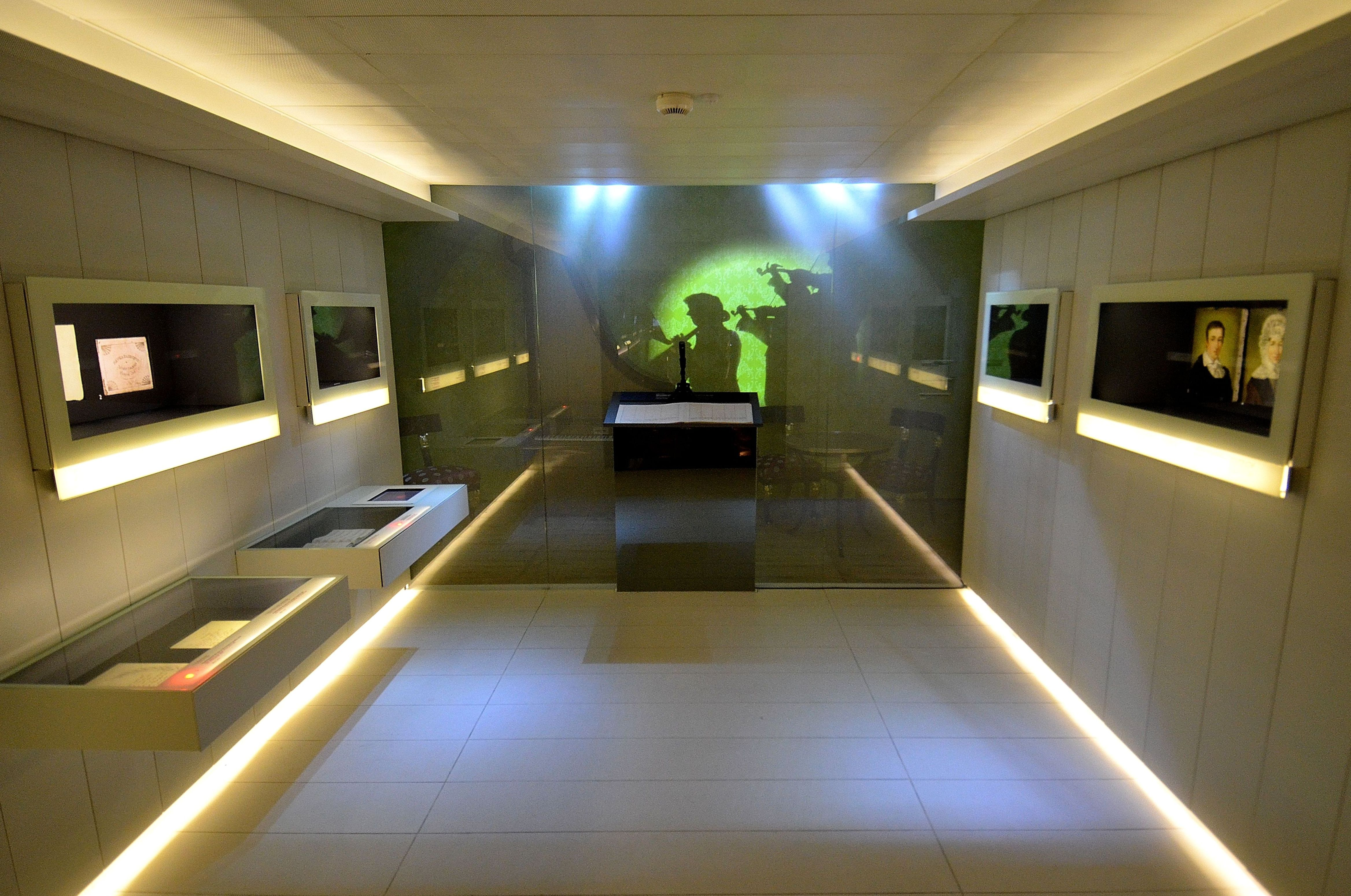 Frederick Chopin Museum in Warsaw